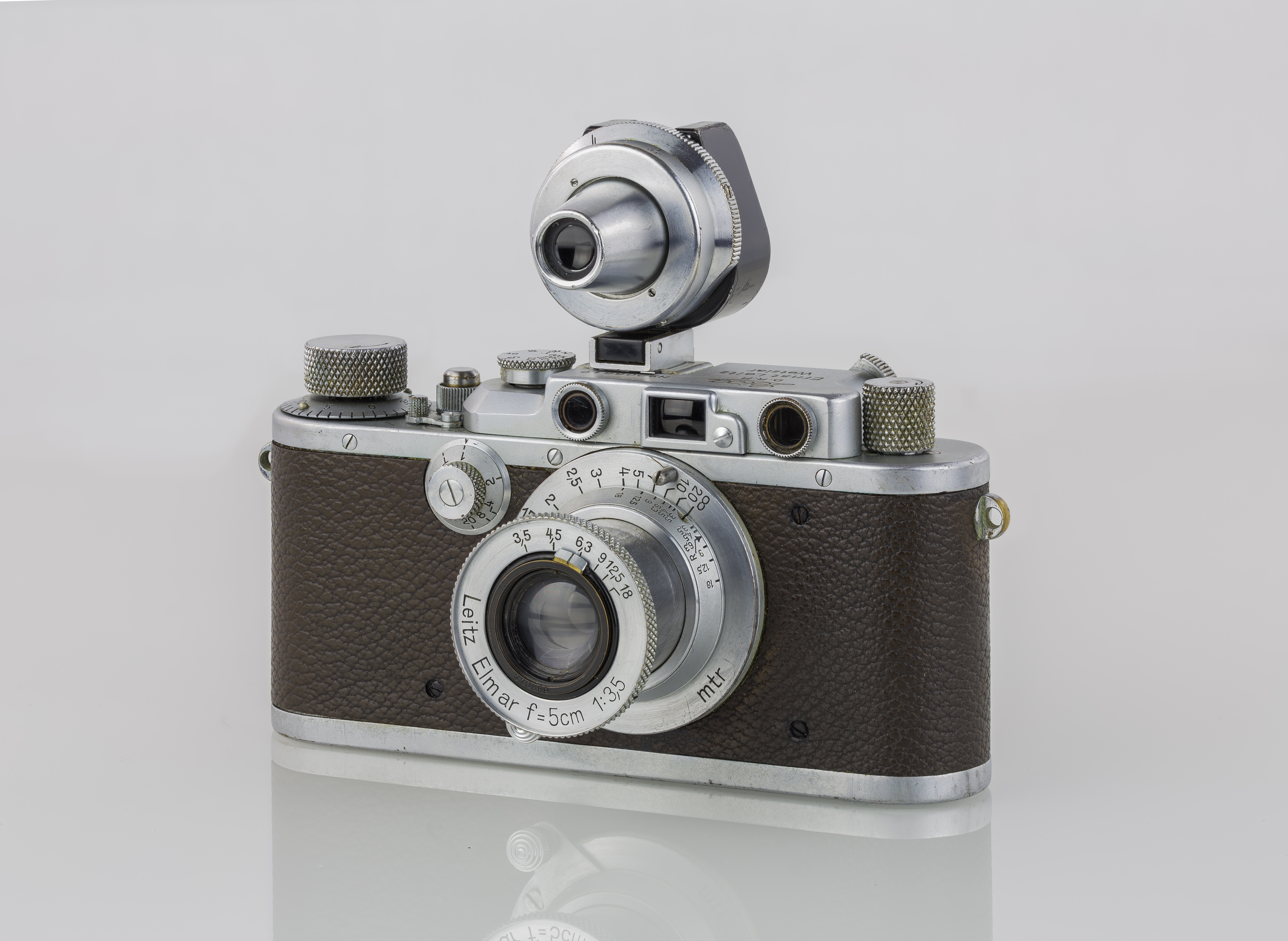 Leica IIIa - Sn. 206617 1936-M39